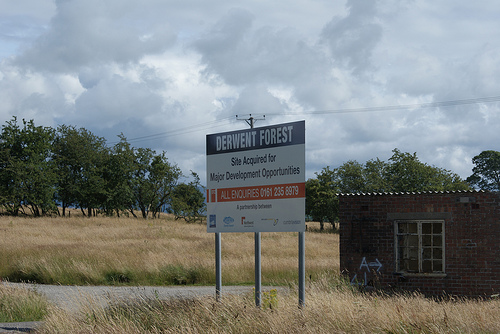 I am the owner of this photo and give full permission for its use on Wikipedia.Footix2 (talk) 16:29, 21 December 2009 (UTC)